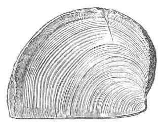 aptychus called Trigonellites latus from Kimmeridge Clay, Ely